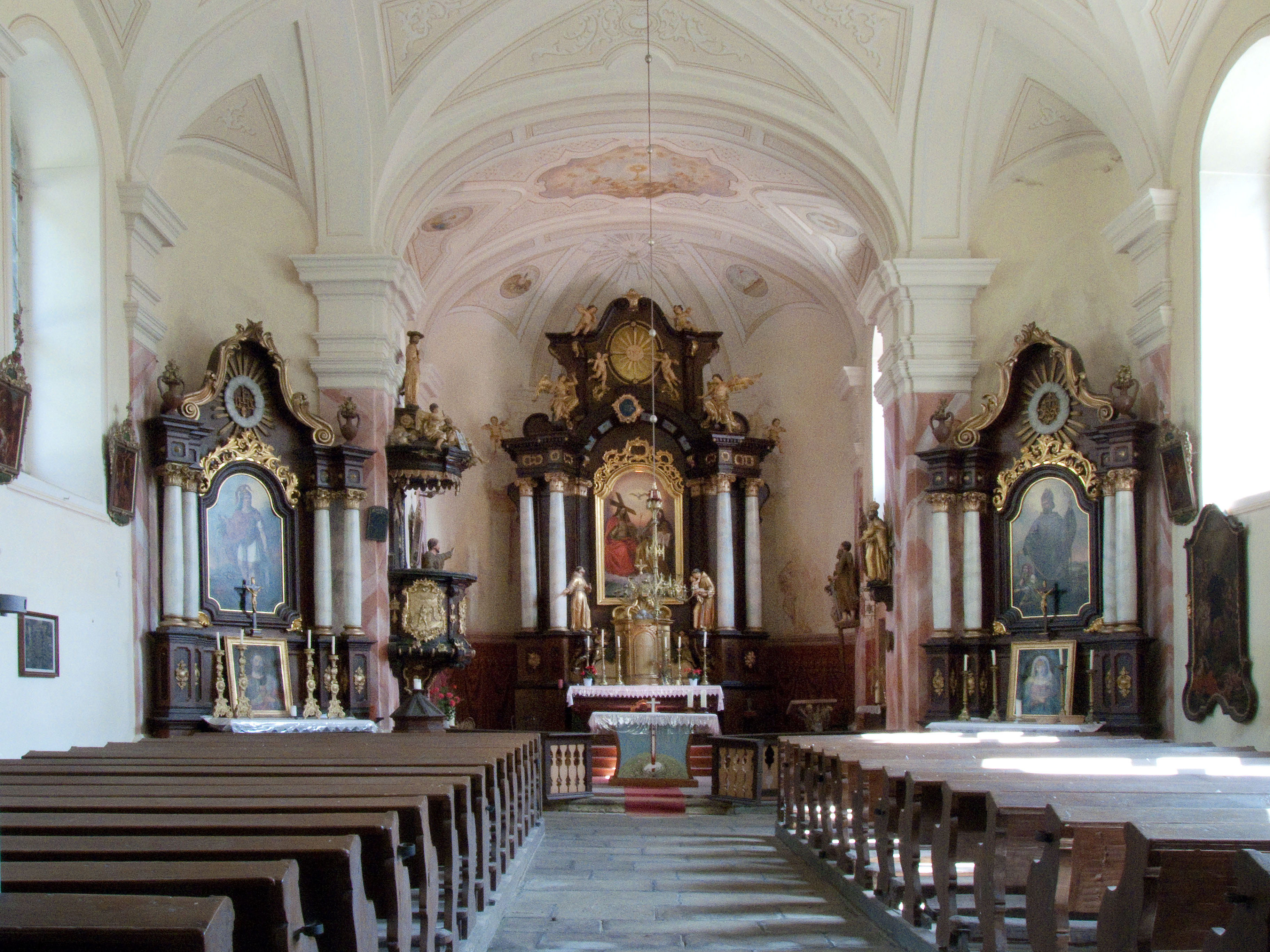 Interior of Holy Trinity Church in Hodňov, Český Krumlov district, Czech Republic